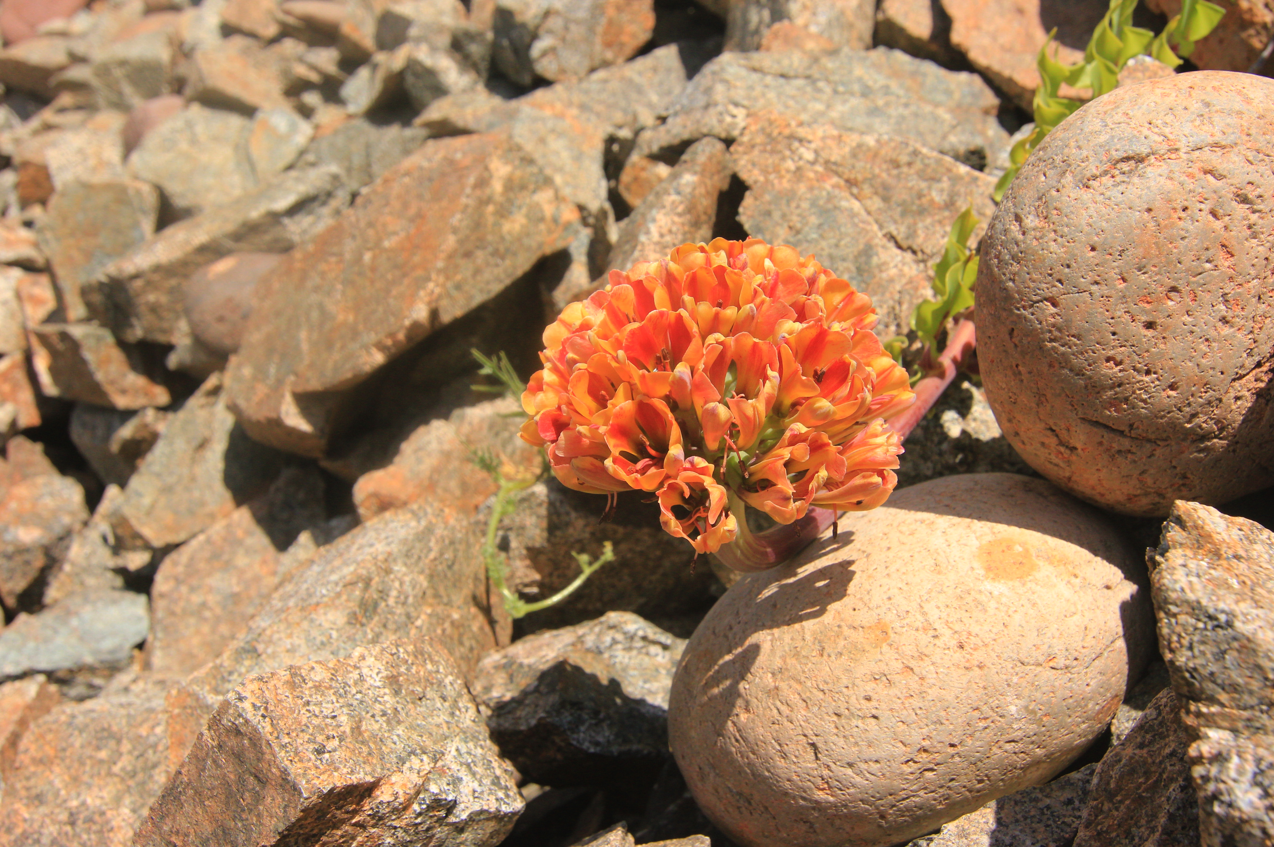 A different color of Bomarea ovallei, Atacama Desert in Chile, Huasco province.